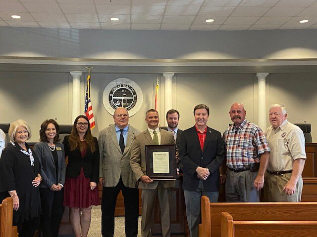 With elected officials today presenting a Congressional Record statement to celebrate Pell City turning 130 years old! #AL03